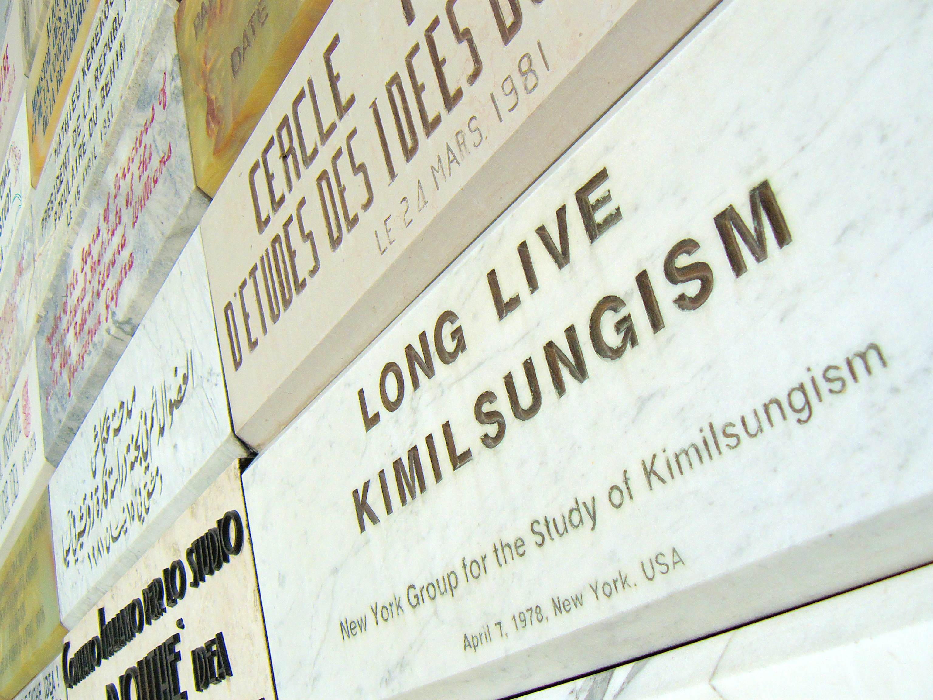 The Tower of Juche Idea was completed in 1982 to commemorate Kim Il Sung's 70th birthday. The Juche Idea, the official state ideology, developed by the man himself, is a blend of Marxism-Leninism and Autarky. On display at the base of the tower are 82 plagues from worldwide supporters of the regime.